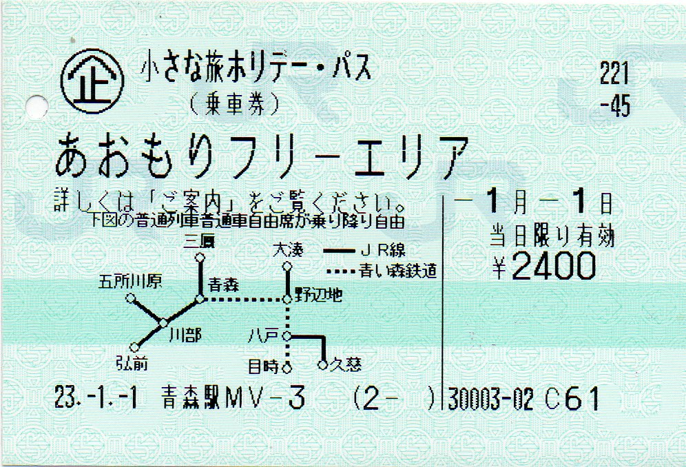 Chiisana Tabi Holiday Pass (for Aomori area), used on 1 January 2011